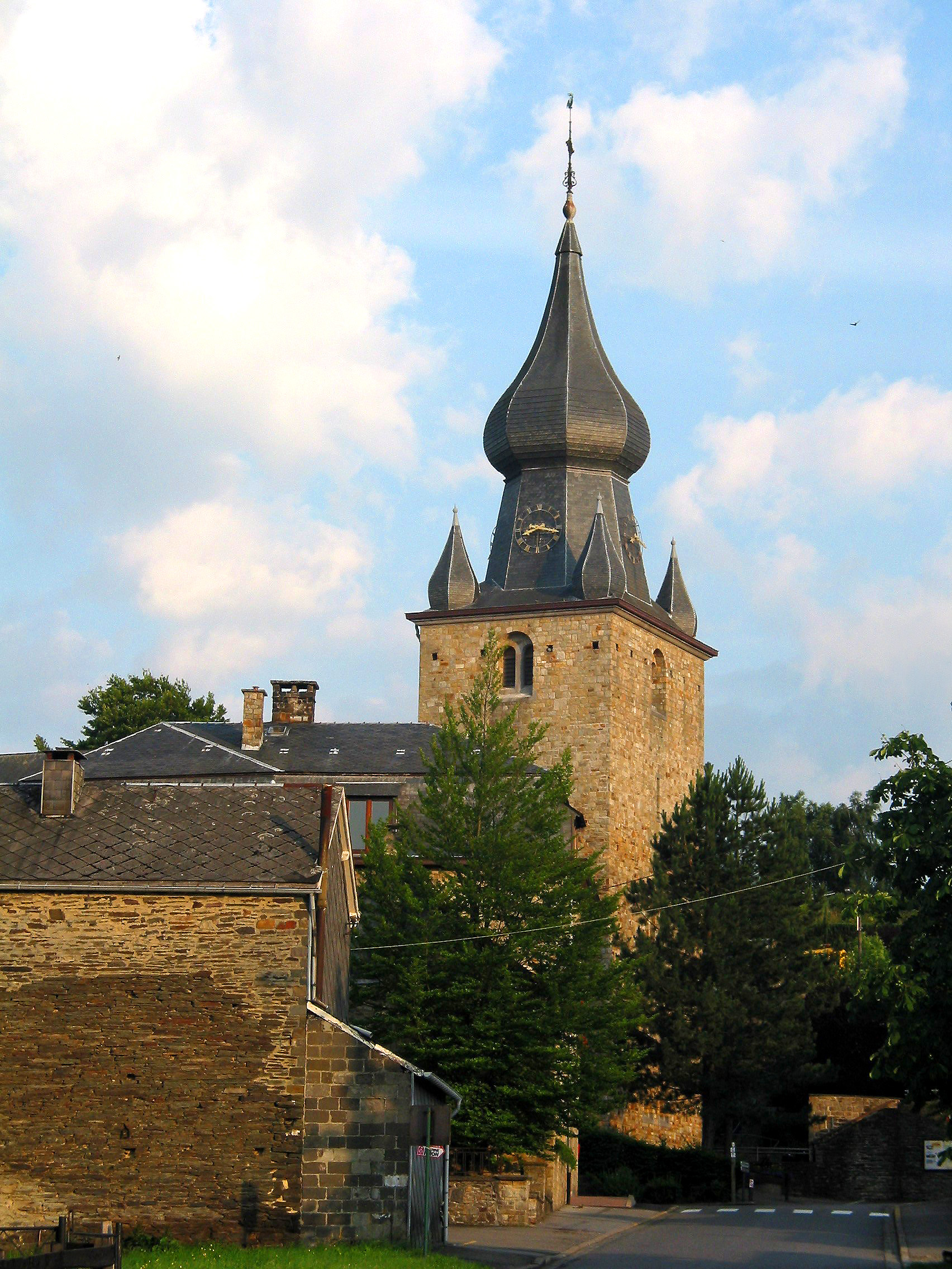 Lierneux, the neighbourhood of the Saint-Andrew's church.